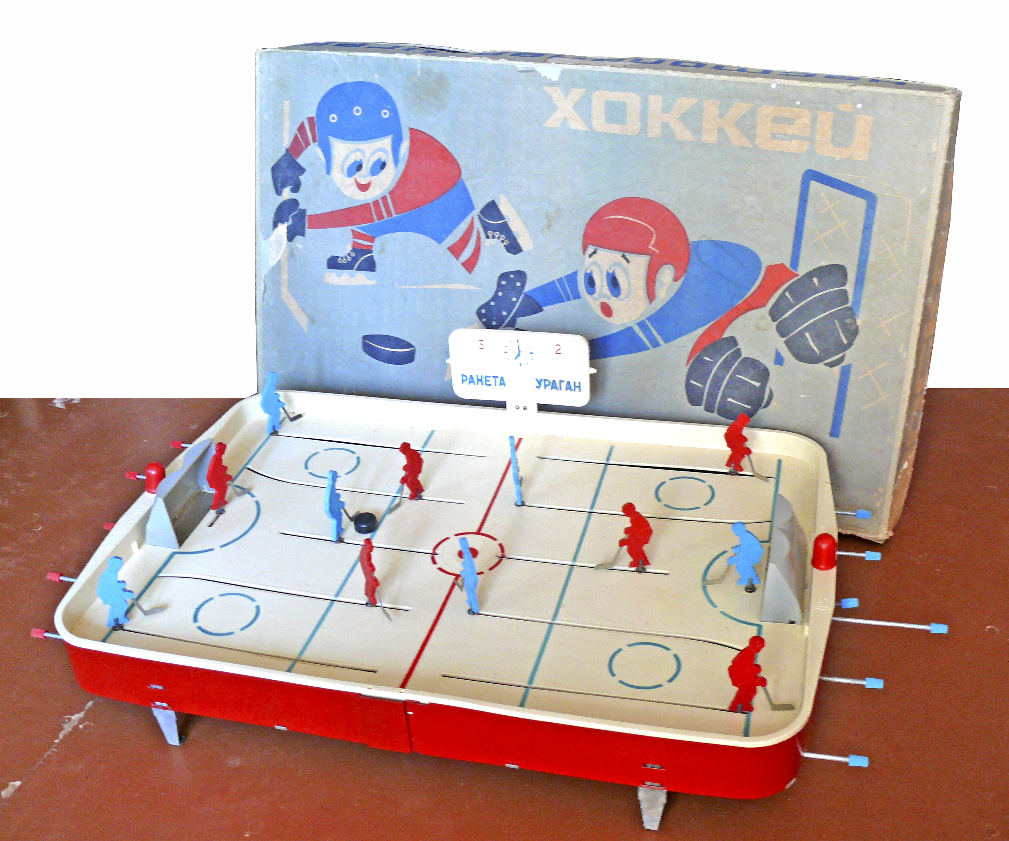 Table hockey made in USSR. It was marked with the sign "State Quality Mark of the USSR" and cost 12 soviet rubles